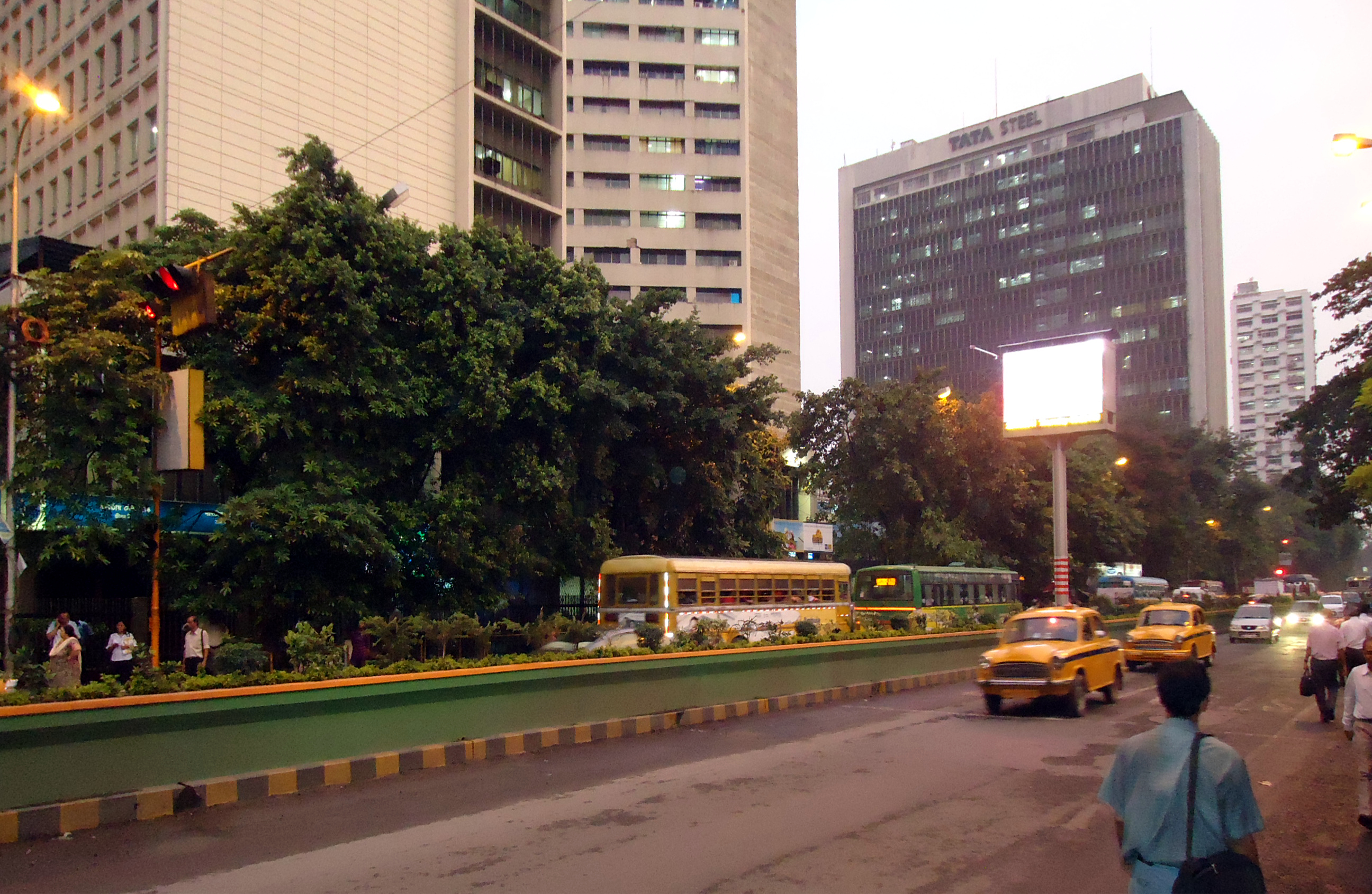 A view of Office buildings at J L Nehru Road